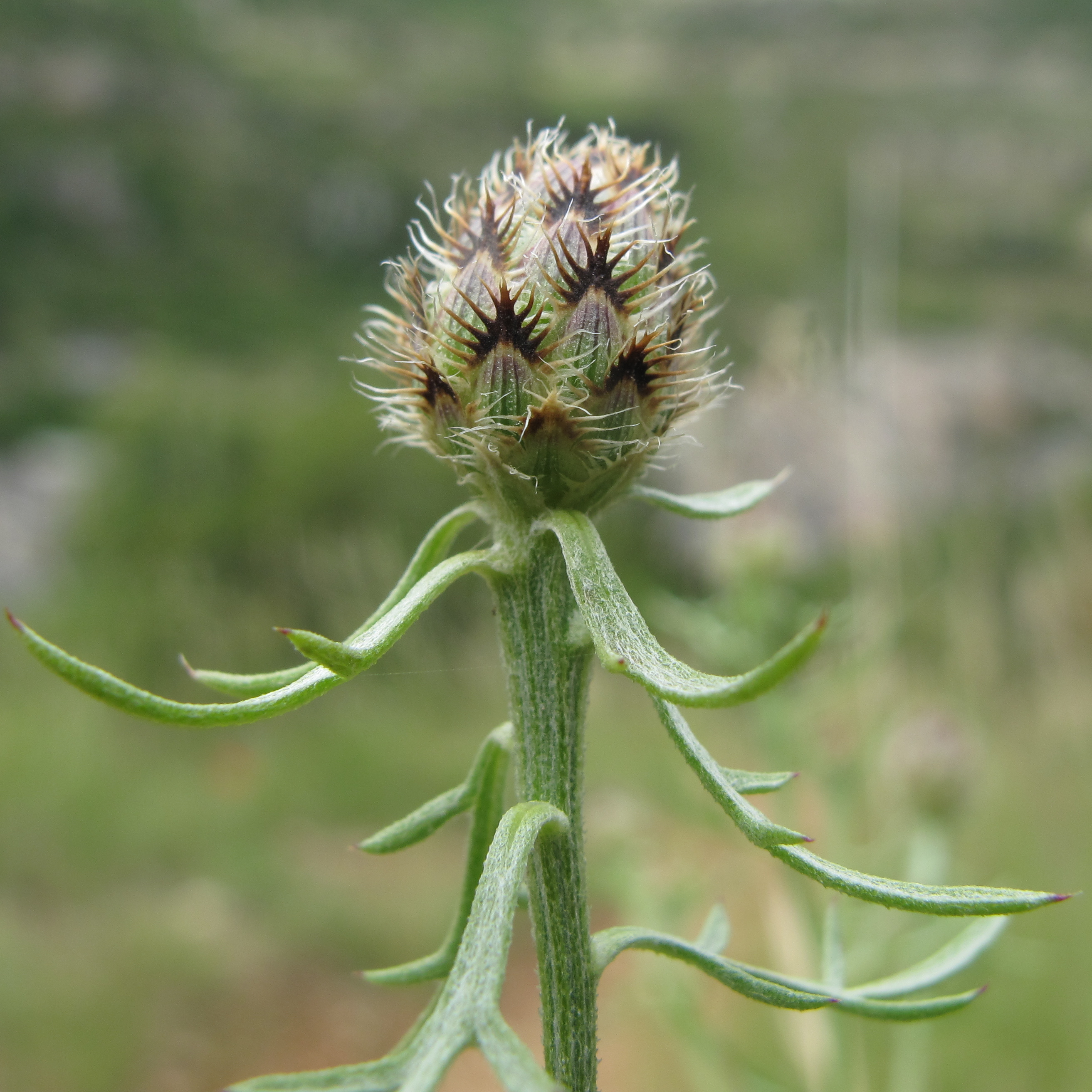 Centaurea paniculata